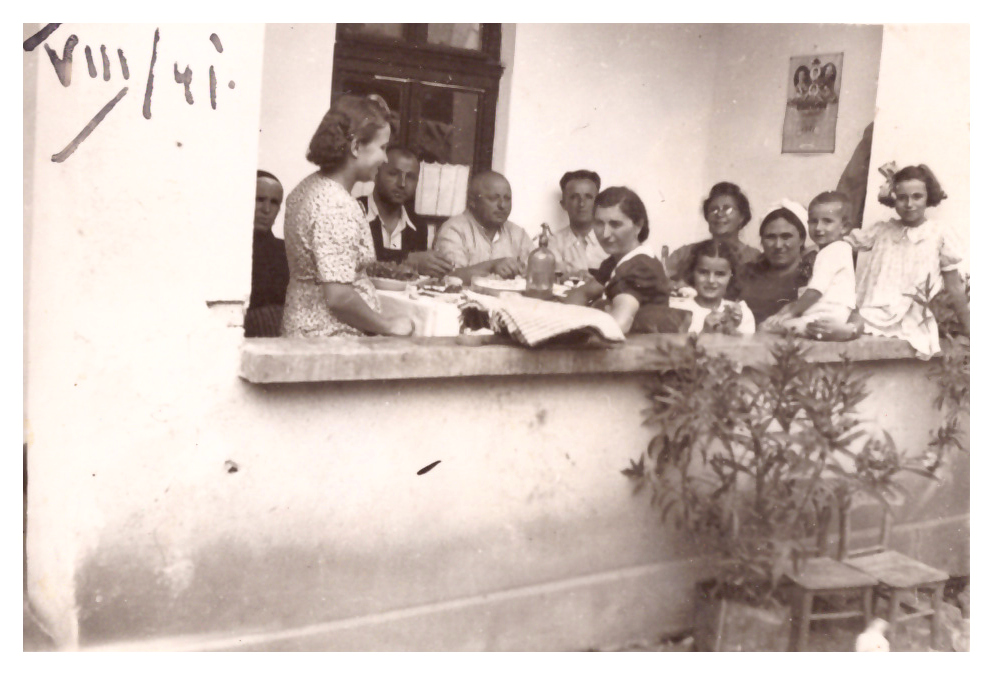 Dimitar Vlahov with the family